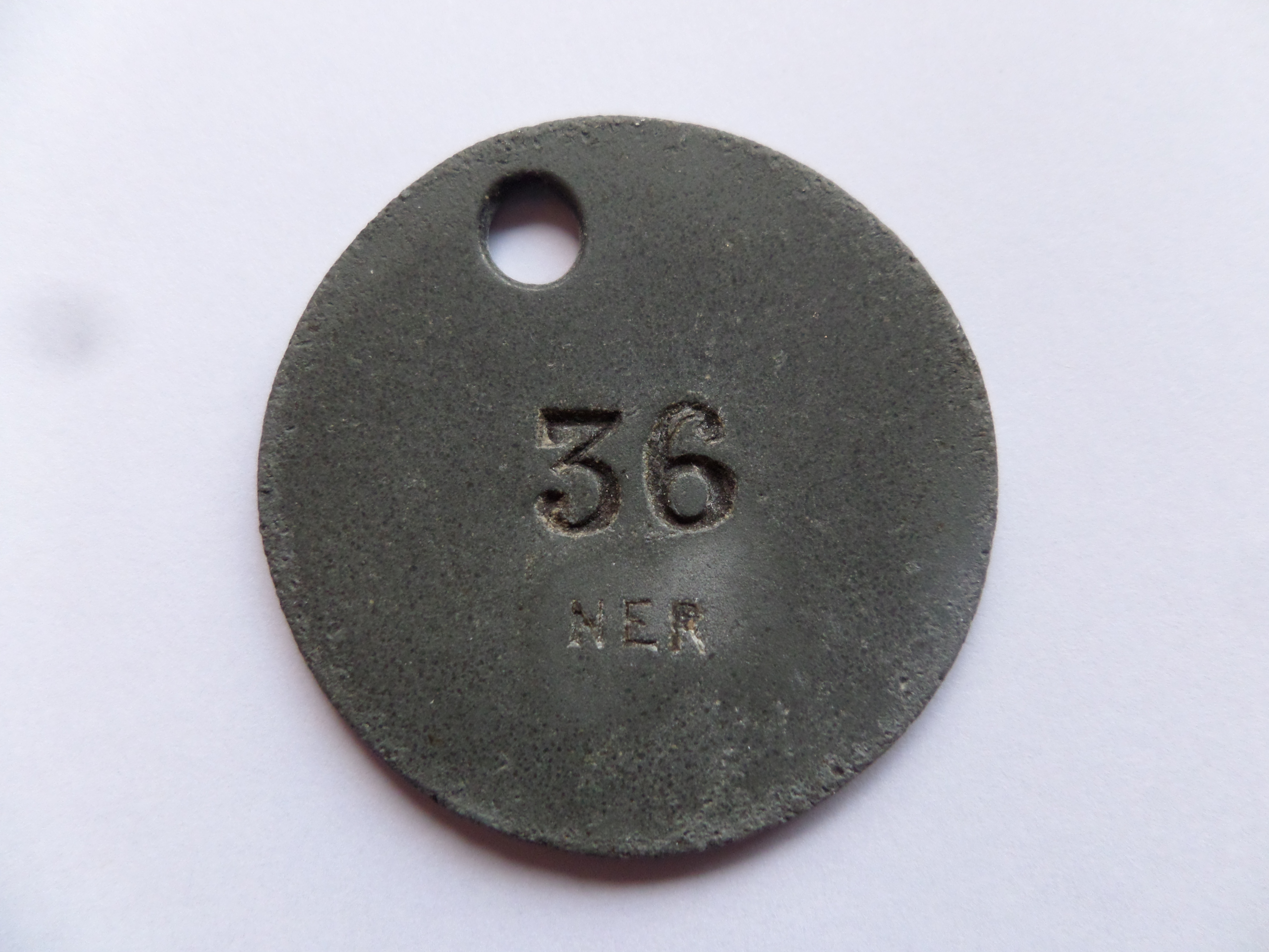 North Eastern Railway Pay Cheque, tin or zinc, No.36.